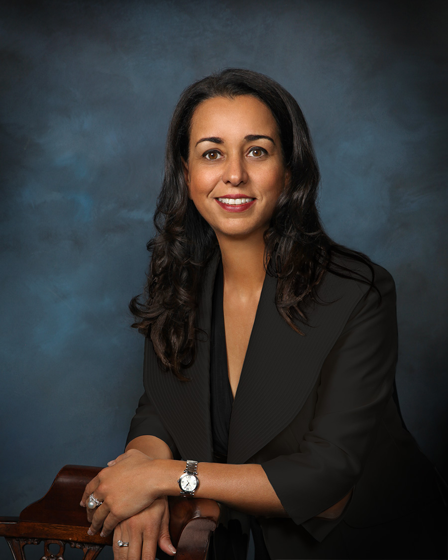 Dr. Ilham Kadri